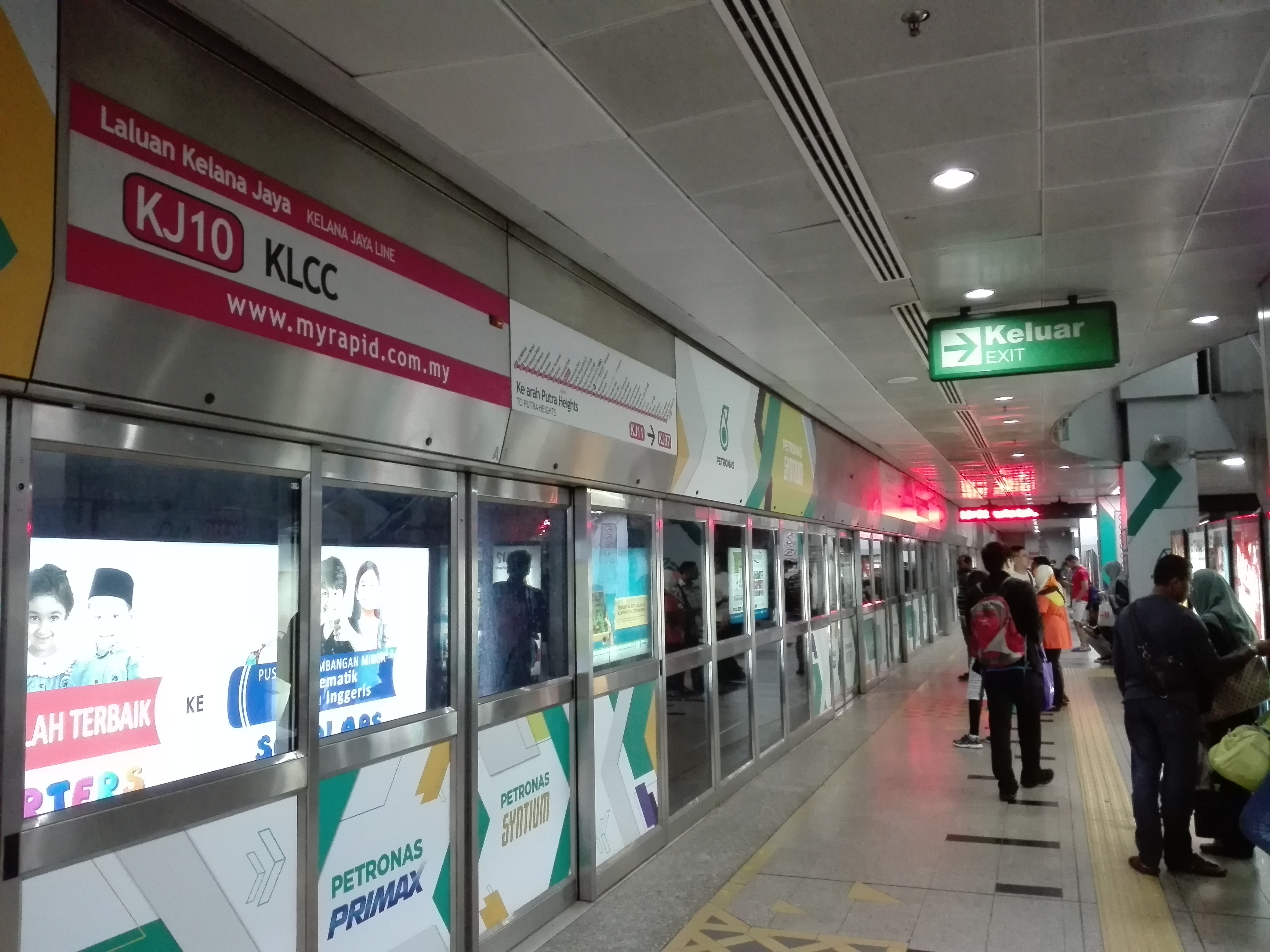 The platform doors at the KLCC LRT station.